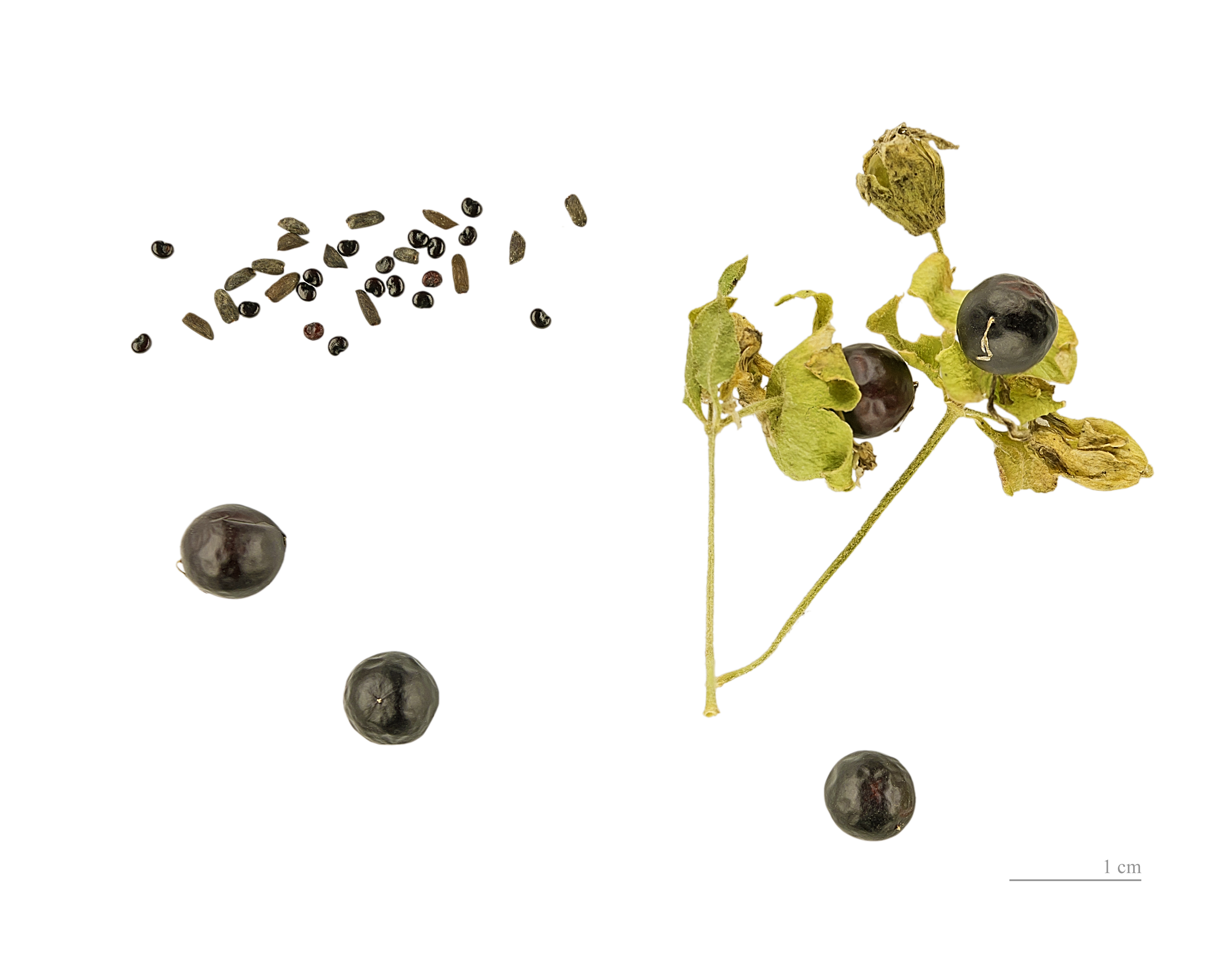 Berry Catchfly, fruits and seeds